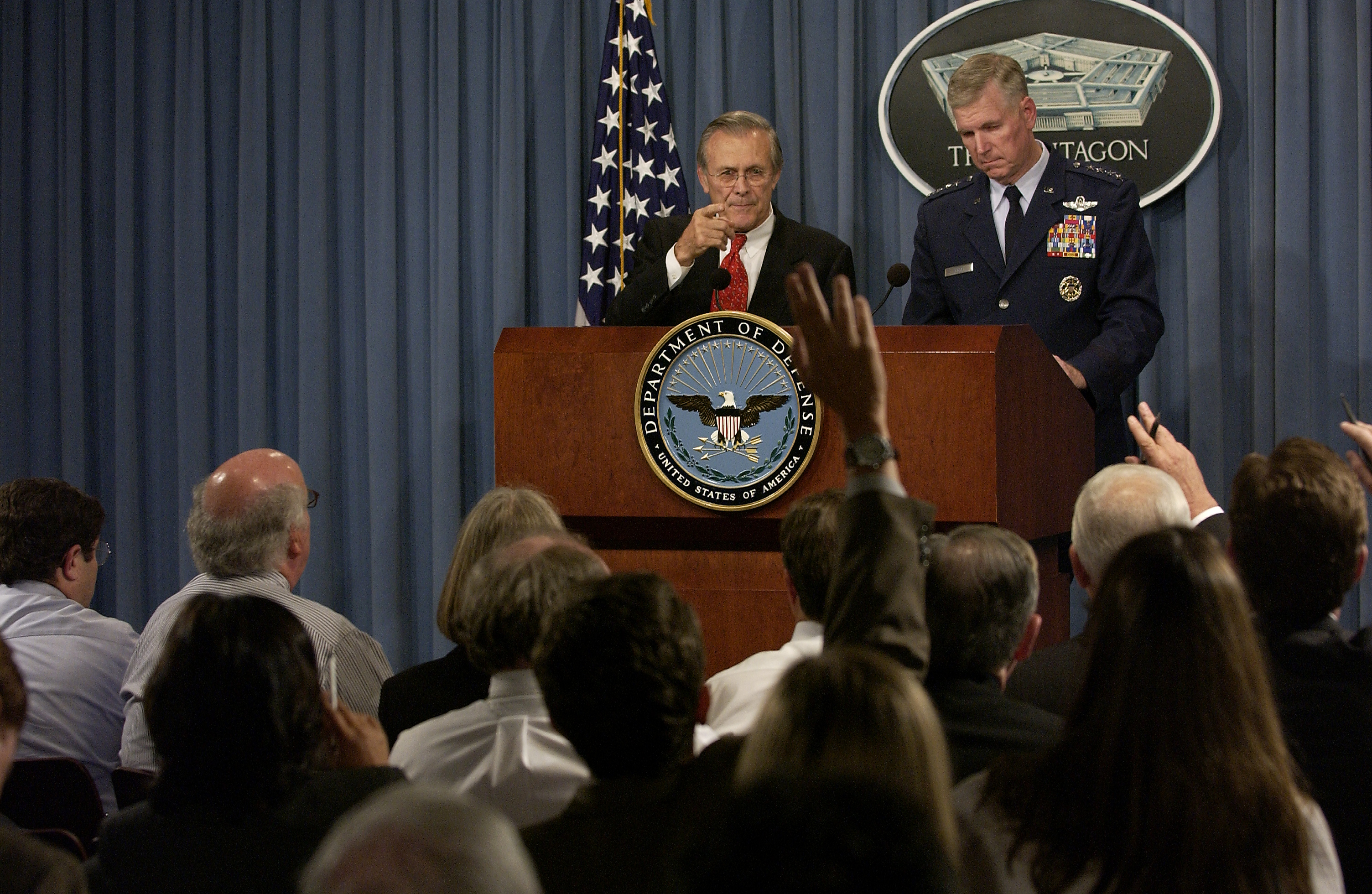 Washington D.C. (Oct. 2, 2003) -- Secretary of Defense, Donald H. Rumsfeld responds to a reporter's question during a Pentagon press briefing. Gen. Myers and Secretary of Defense, Donald H. Rumsfeld gave reporters an operational update on Operation Iraqi Freedom. DoD photo by Tech. Sgt. Andy Dunaway. (RELEASED)